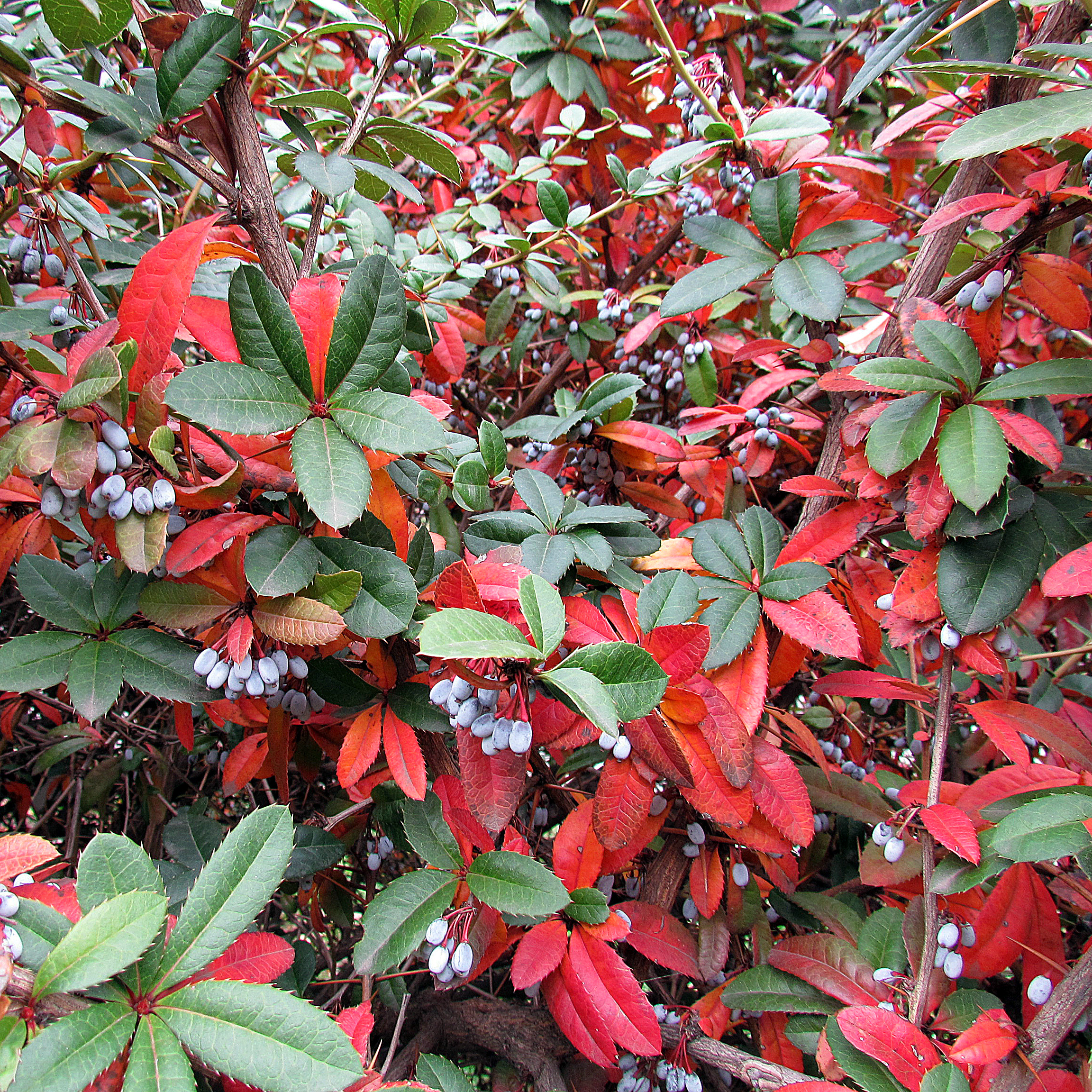 Fall leaf color of Berberis julianae